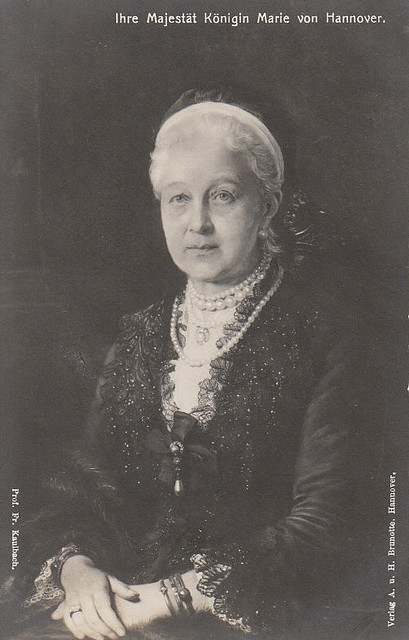 Marie of Saxe-Altenburg, queen of Hanover